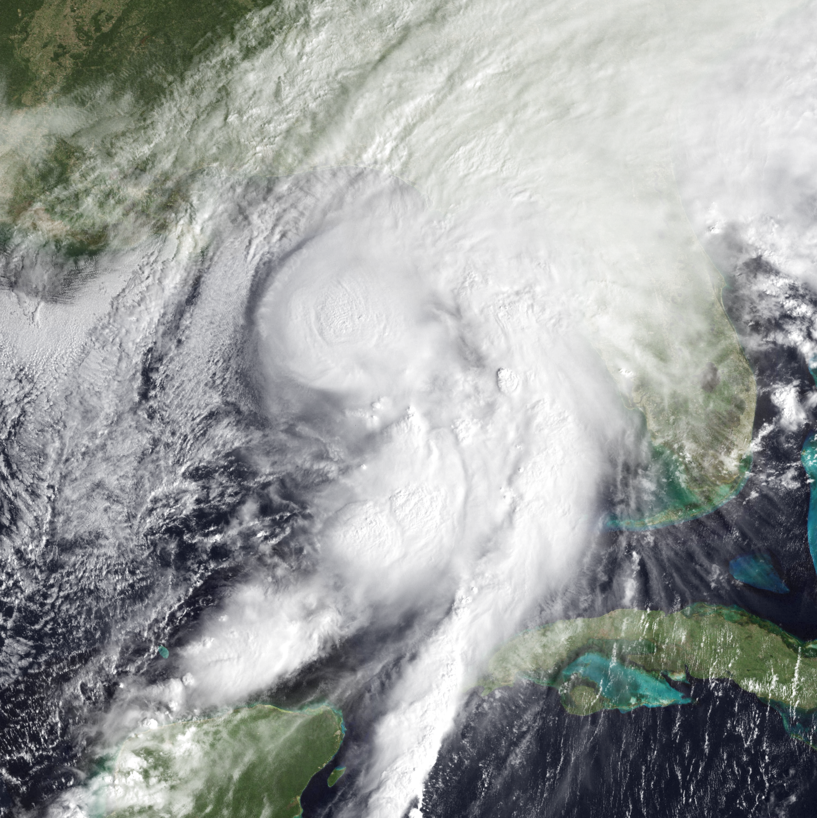 Tropical Storm Josephine shortly after peak intensity on October 7, 1996